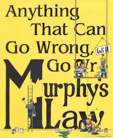 Murphy's Law